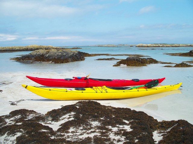 Sea kayaking bliss Stunning beauty of the small islands around Loch Nan Ceall off Arisaig.